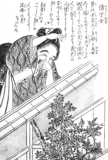 Kerakera-onna (倩兮女, a giant cackling woman who appears in the sky) from the Konjaku Hyakki Shūi (今昔百鬼拾遺)